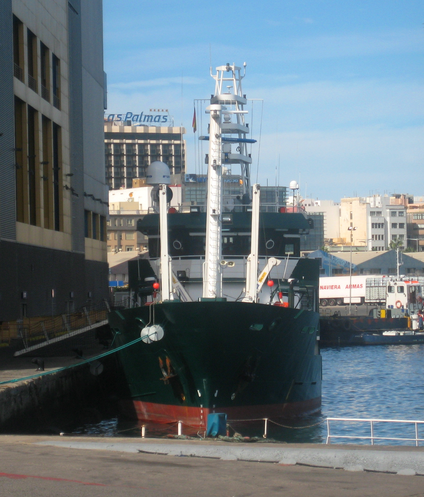 Patrol ship "Río Miño" of the Maritime Service of the Spanish Civil Guard.